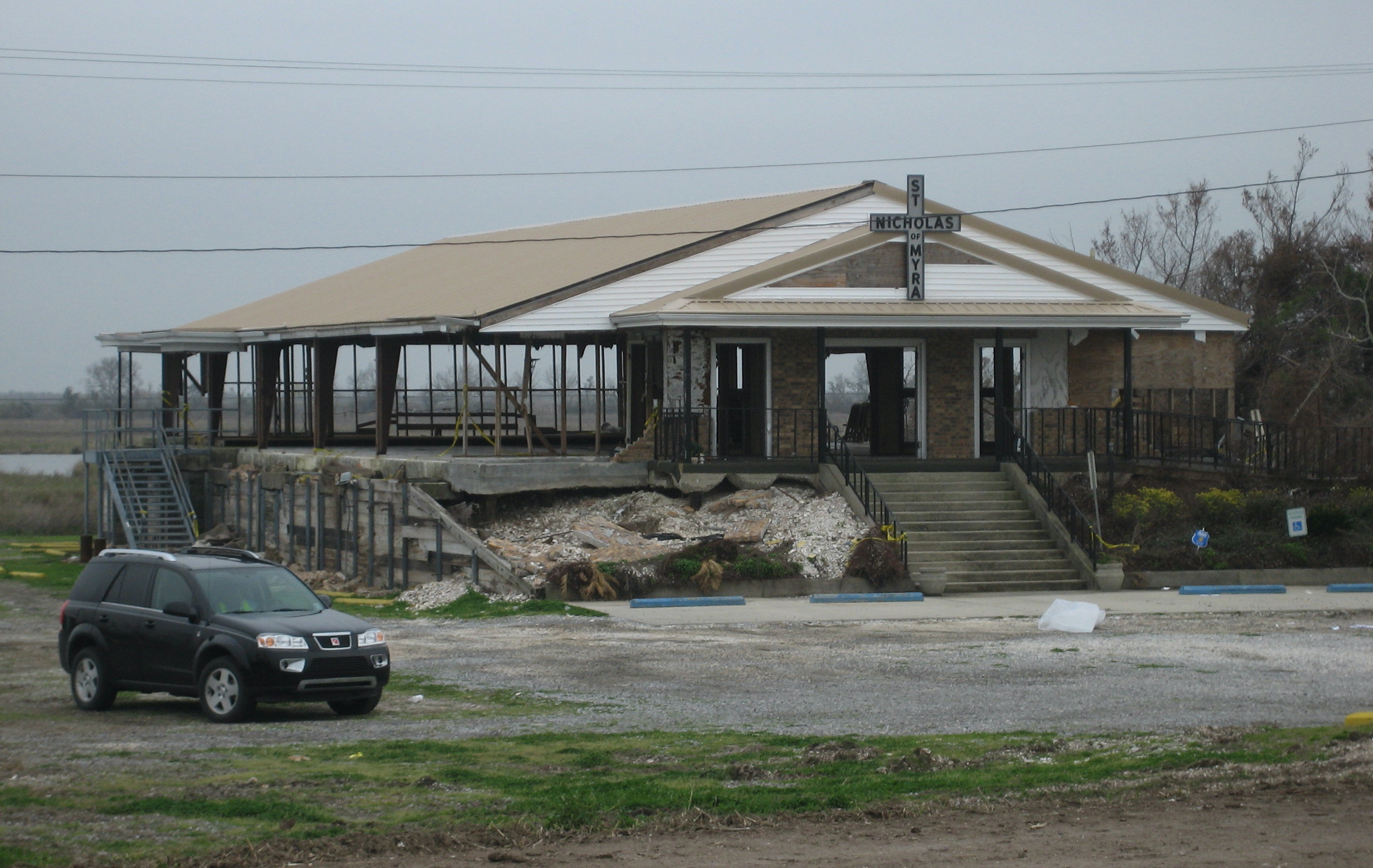 New Orleans after Hurricane Katrina: Severly damaged Lake St. Catherine area. St. Nicholas of Myrna Church, photographed February 2006. This church has been holding services again, despite that it lacks walls.